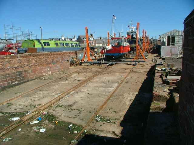 Arbroath slipway